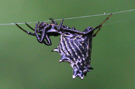 Micrathena gracilis